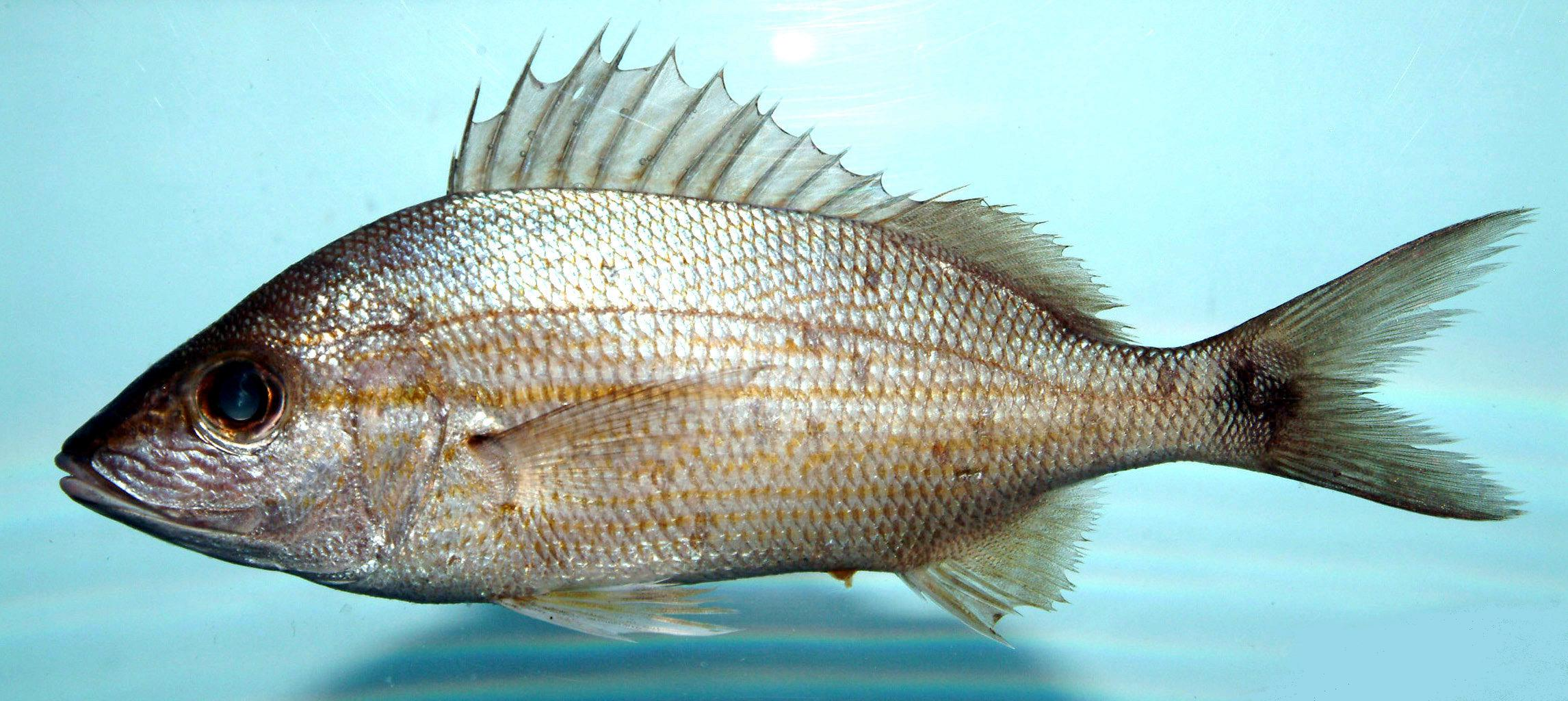 Haemulon aurolineatum from the Gulf of Mexico